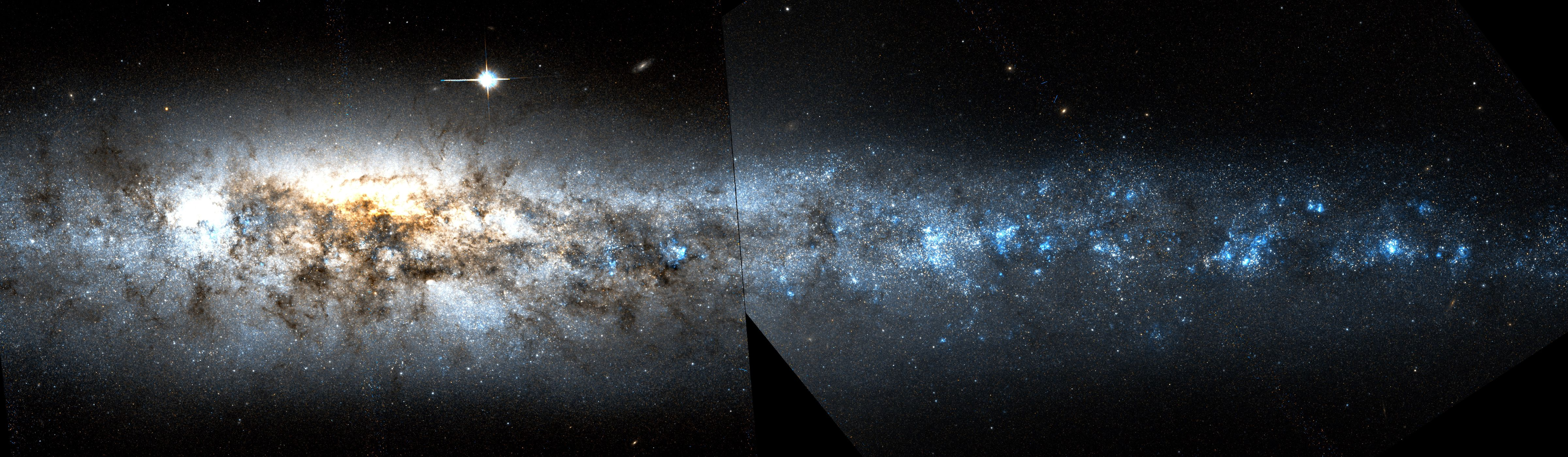 NGC 4631 spiral galaxy in the constellation Canes Venatici. Mosaic of two Hubble Space Telescope images; 7.2′x2′ view